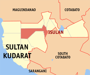 Map of the Sultan Kudarat showing the location of Isulan